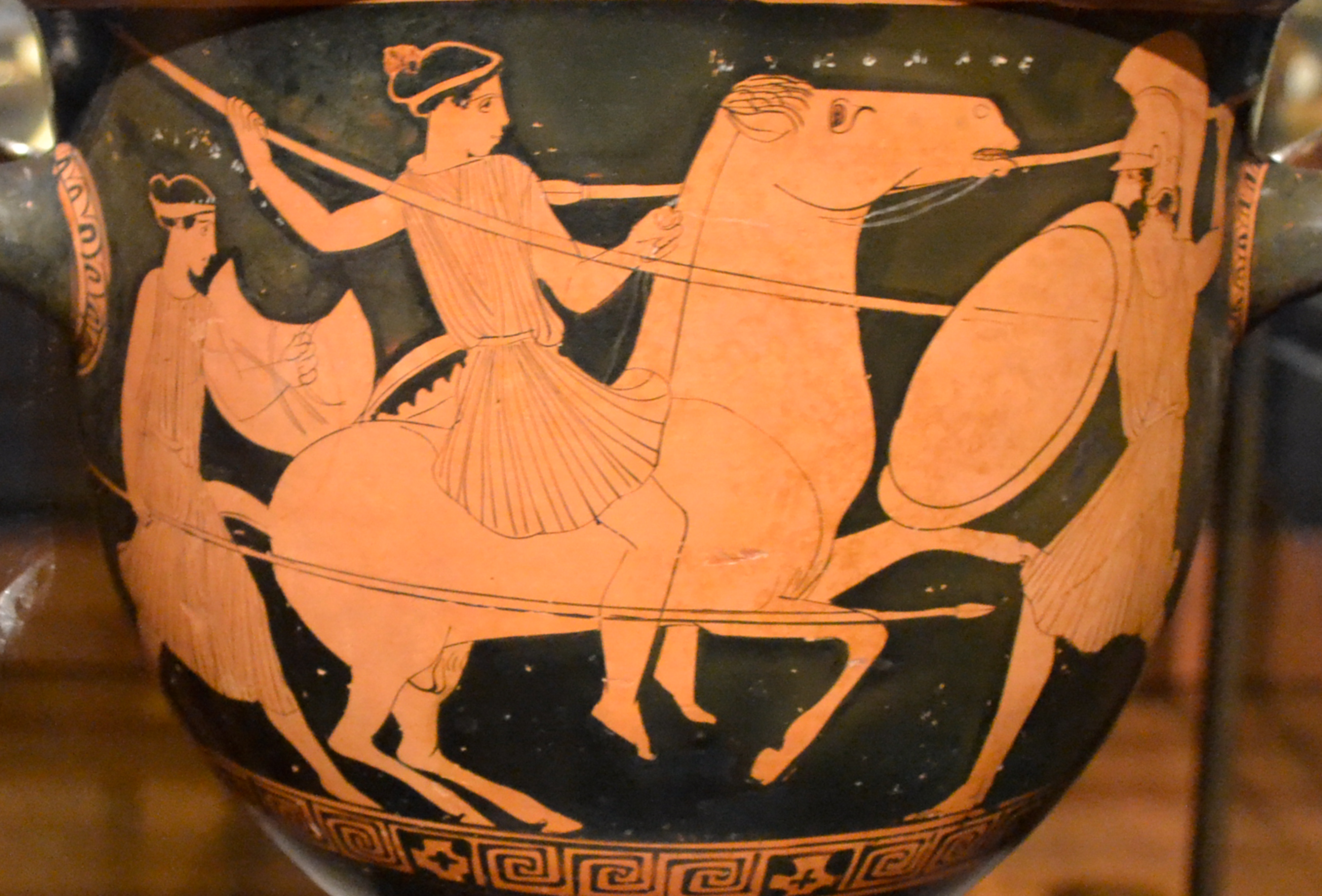 Amazons fighting a Greek soldier. Side A of an Attic red-figure bell-krater. National Archaeological Museum of Spain